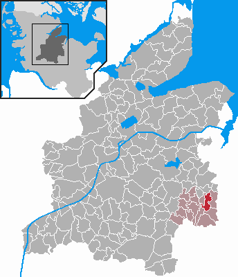 Locator maps of municipalities in Schleswig-Holstein - District Rendsburg-Eckernförde